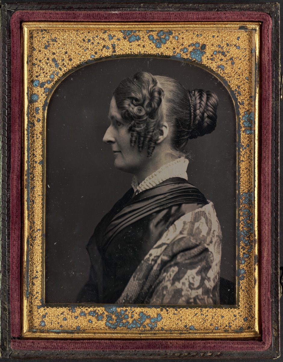 BPLDC no.: 07_05_000009 Call no.: Cab.G.3.29 Title: Maria Weston Chapman Creator: Date: 1846 (approximate) Publisher: Boston? Extent: 1 photograph : quarter plate daguerreotype ; in case 9 x 7 cm. Genre: Daguerreotypes; Portraits Notes: Taken at approximately age 40.; Reference: Facing the Light, no. 100.; Given to Elizabeth Pease by Wendell Phillips. Subjects: Abolitionists Chapman, Maria Weston, 1806-1885 BPL Department: Rare Books Department